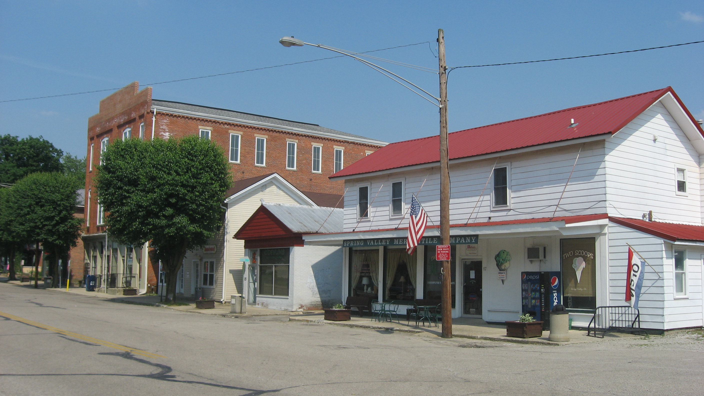 Buildings on the southern side of the first block of W. Main Street in Spring Valley, Ohio, United States. This block is part of the Main Street Historic District, a historic district that is listed on the National Register of Historic Places.